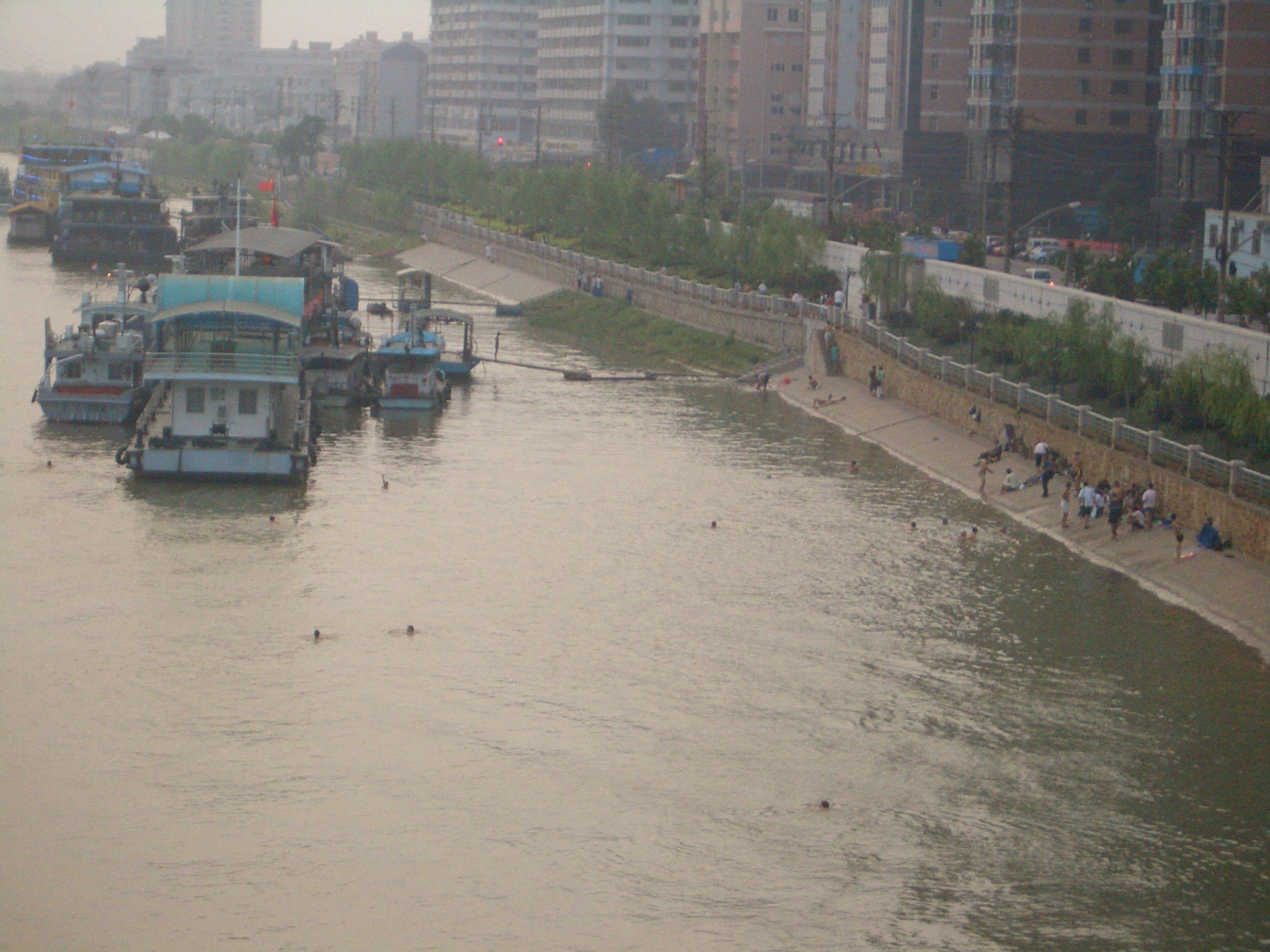 The Han River (Hanjiang, or Hanshui) in Wuhan